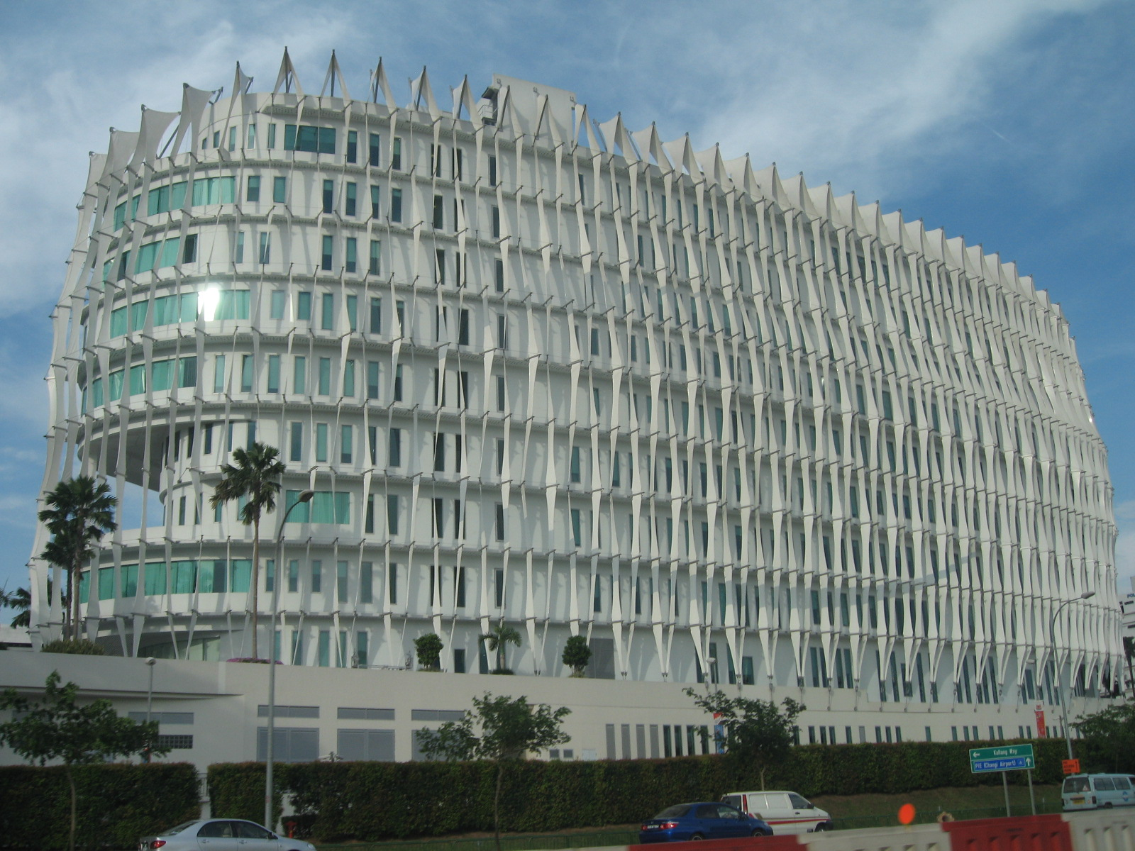 Infineon — Singapore HQ bldg. In Kallang, built 2000s. Taken by Terence Ong in July 2006.